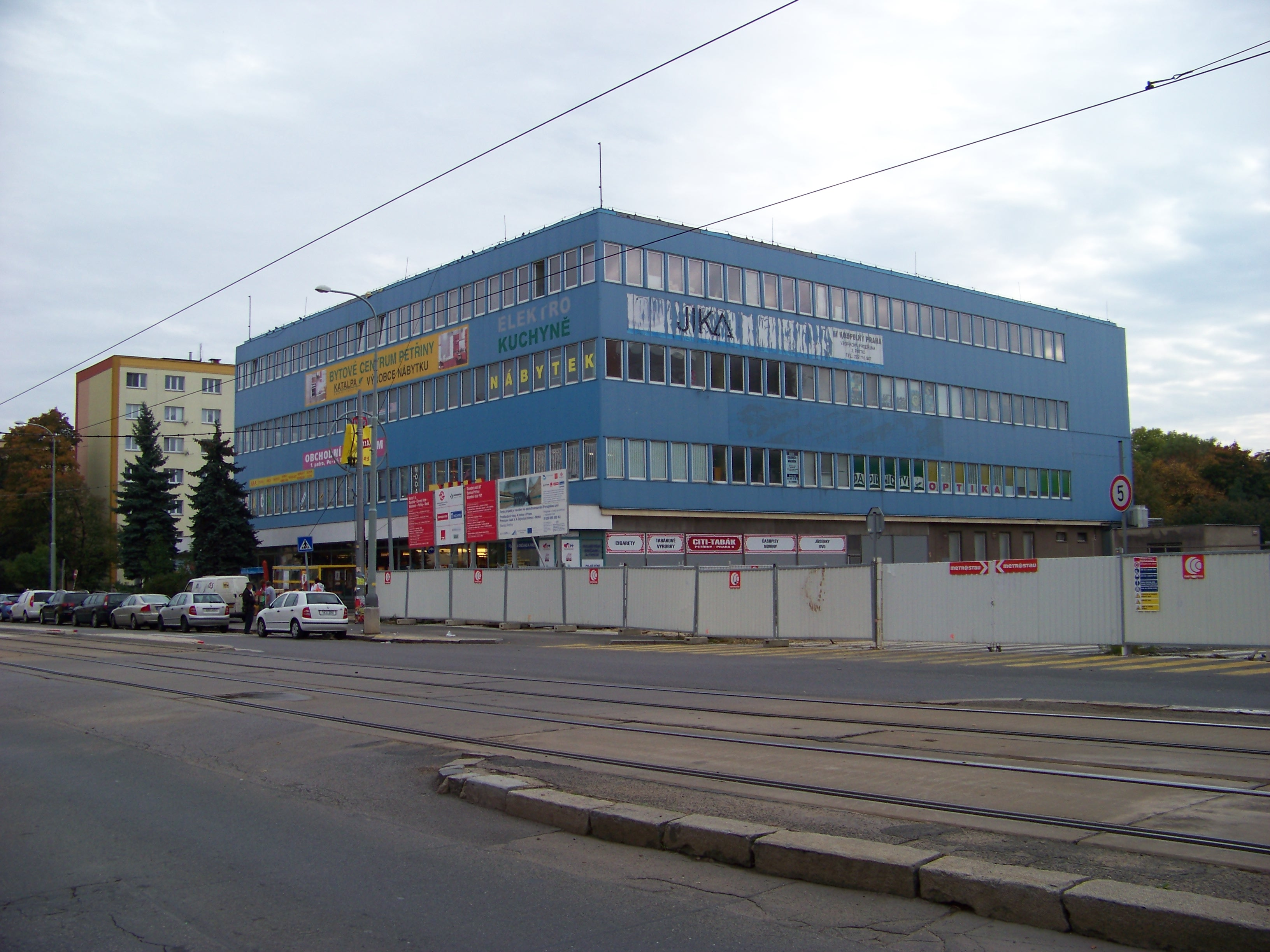 Prague-Břevnov, the Czech Republic. Na Petřinách, Brunclíkova, metro construction site, a shopping centre.